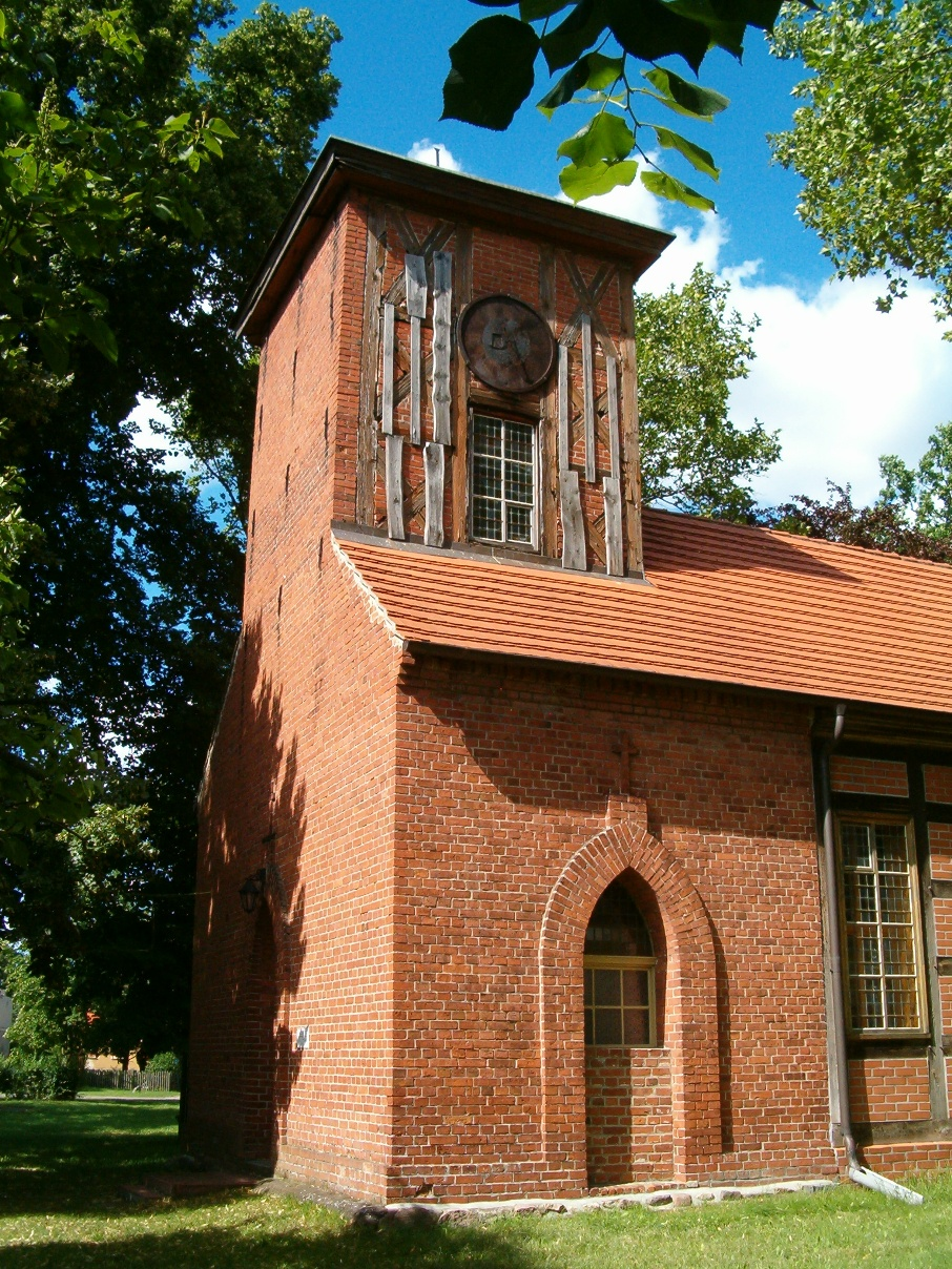 Church in Wutzetz in Brandenburg, Germany